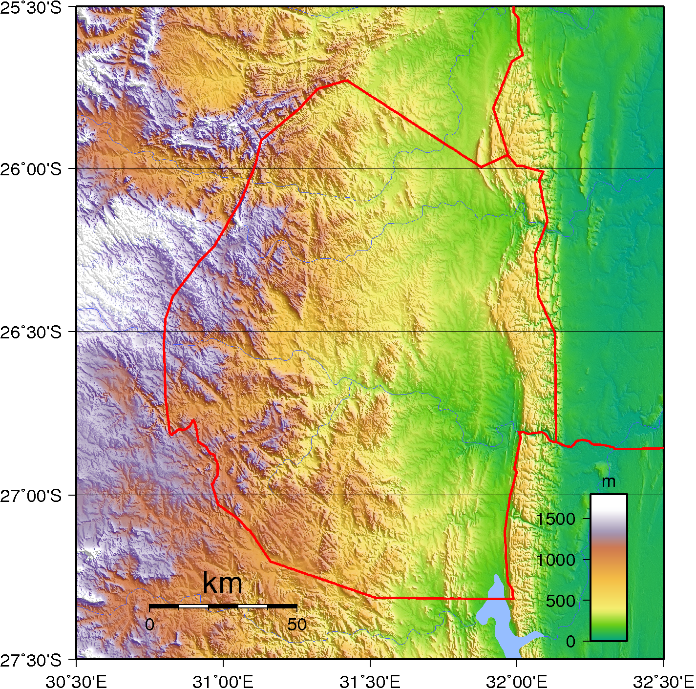 Topographic map of Eswatini. Created with GMT from public domain SRTM data.